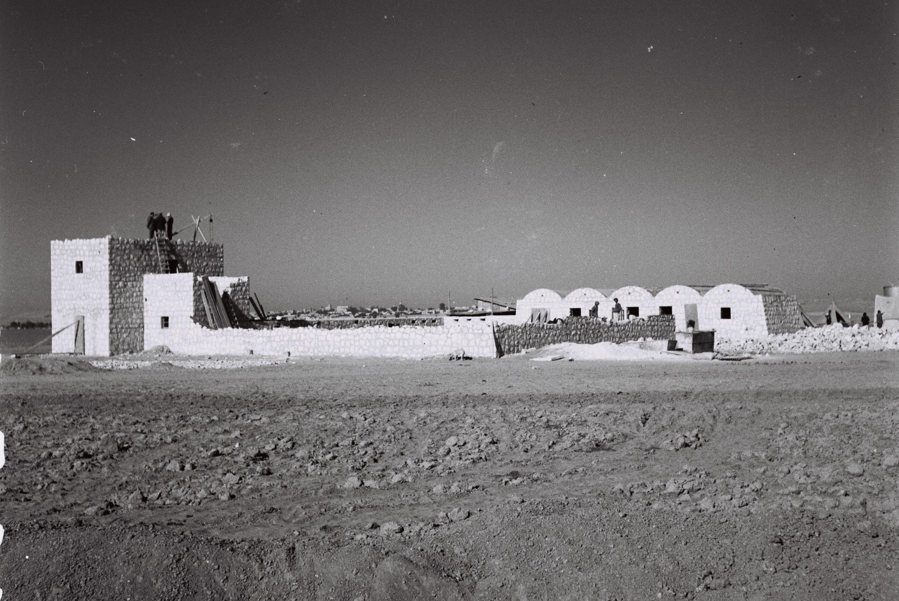 WORKERS CONSTRUCTING ONE OF THE CORNER BUILDING OF THE FORTIFIED KIBBUTZ BEIT ESHEL ON THE APPROACHES OF BEER SHEVA.